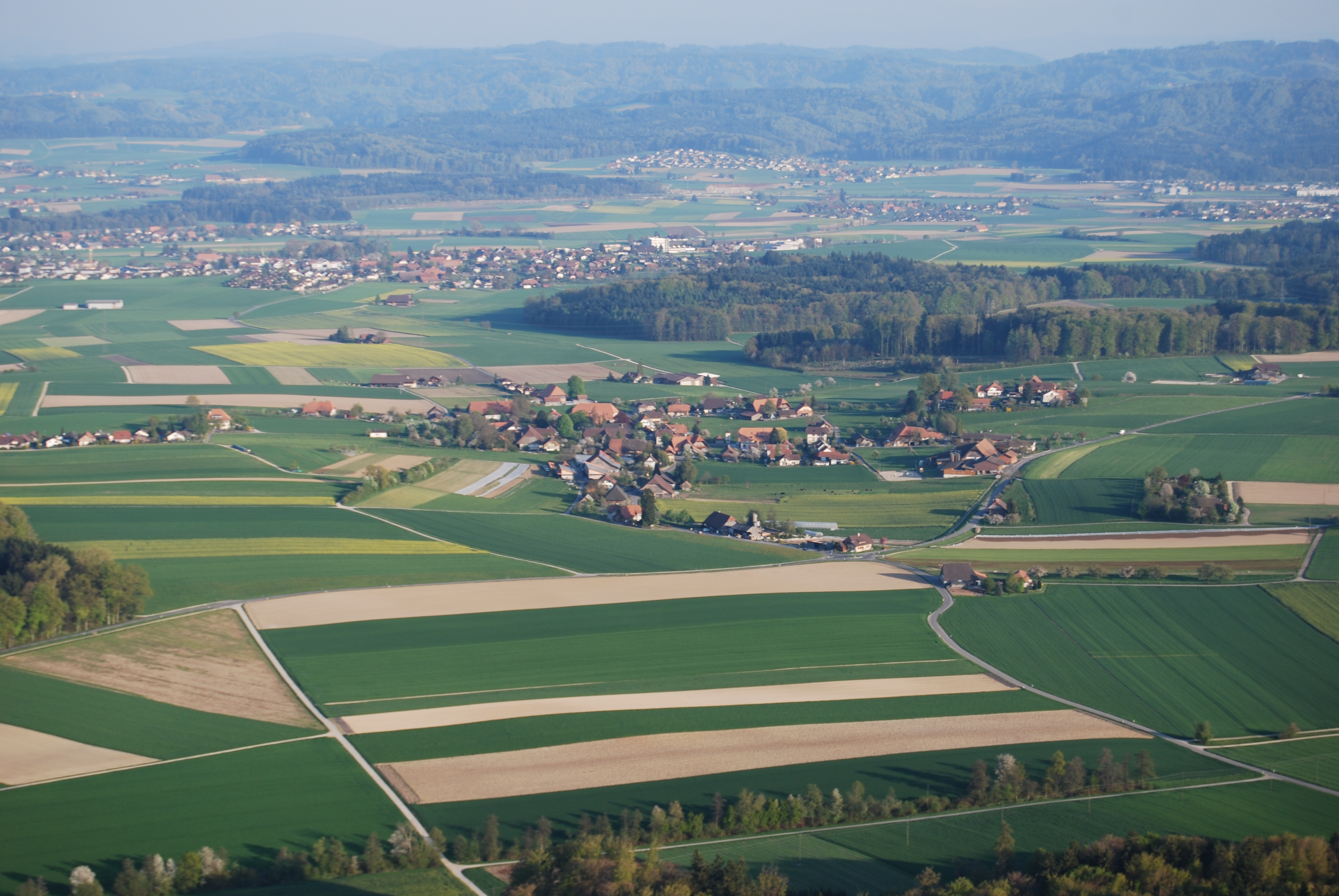 Iffwil and Jegenstorf (canton of Berne), Switzerland